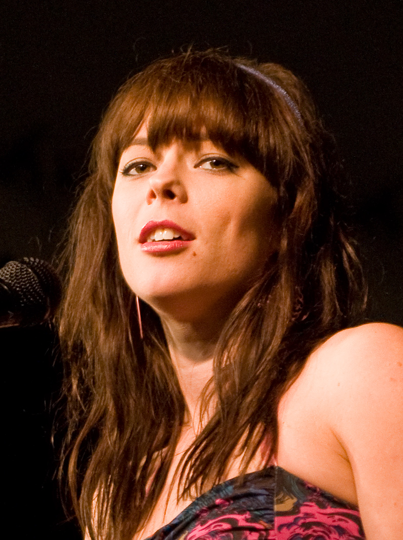 Lenka @ Bumbershoot 2009, Seattle